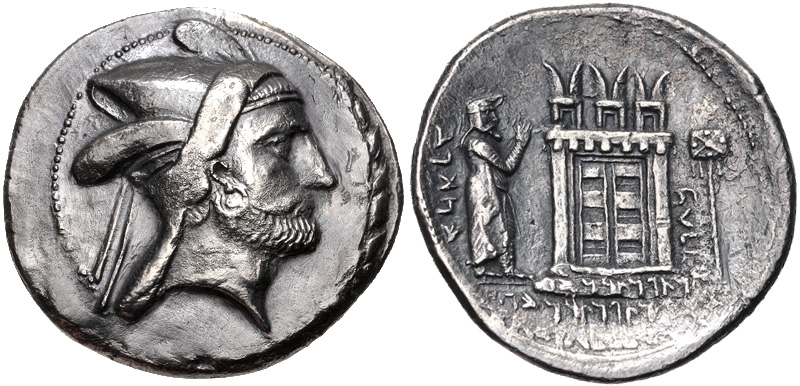 KINGS of PERSIS. Bagadates Early 3rd century BC